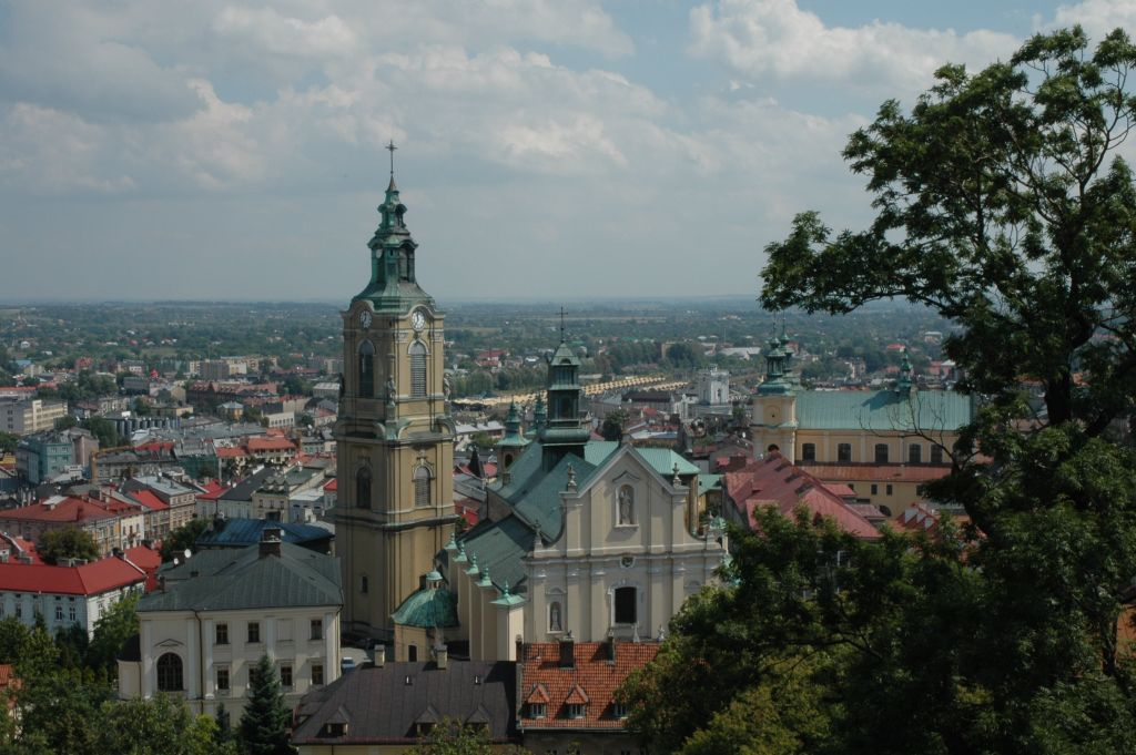 Poland, Przemysl - cathedral. View from the Castle Tower.